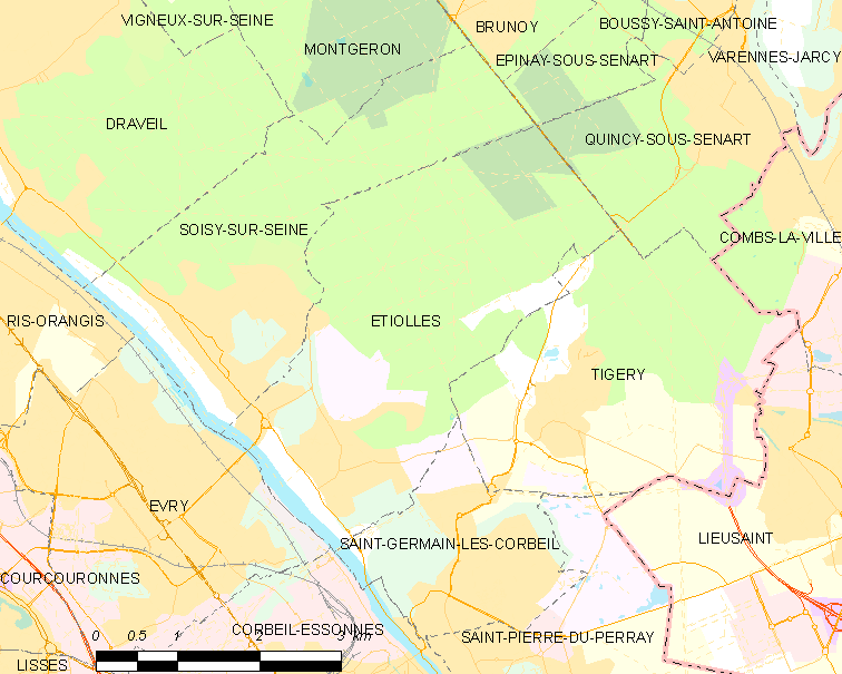 Map of French municipality Étiolles